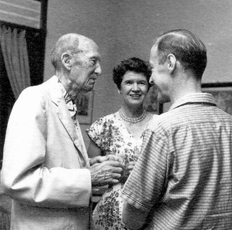 I have inherited this phot among a large collection of my parents' photos